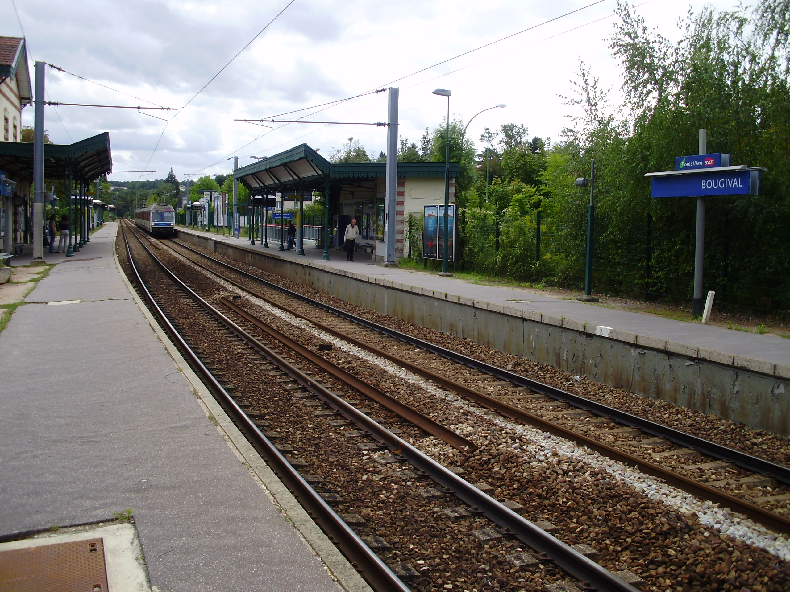 Bougival station, in La Celle-Saint-Cloud, Yvelines, France (view of the platforms with a train coming from Paris-Saint-Lazare)